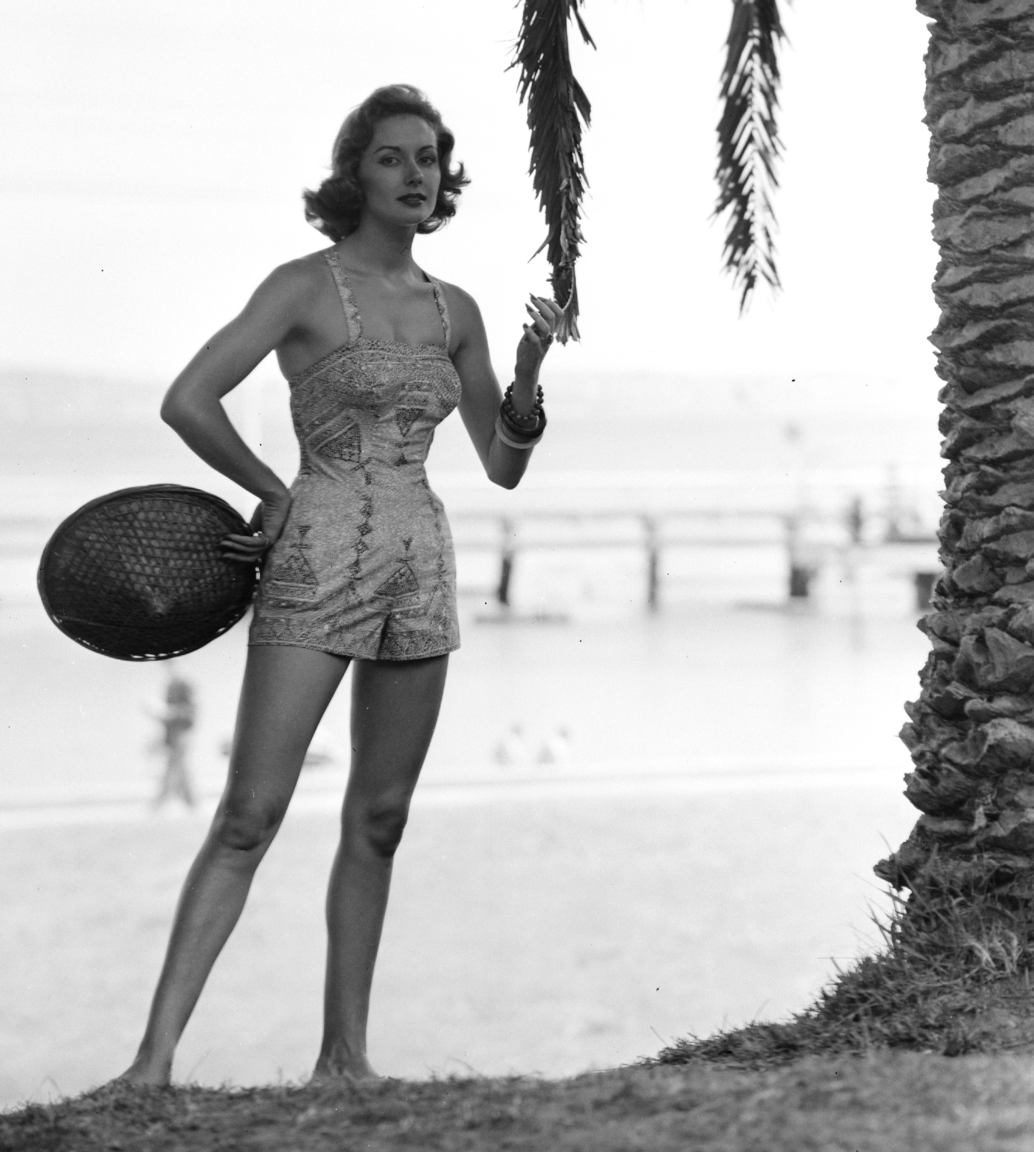 This photo is part of the Australian National Maritime Museum’s Gervais Purcell collection. Gervais Purcell (1919-1999) was a respected Australian commercial photographer who worked from the 1940s with retailers like David Jones and Hordern Bros, radio technology manufacturer Amalgamated Wireless Australasia (AWA), swimwear manufacturer Jantzen, tourism operator Ansett Airways, and cruise ship operators P&O. Gervais’ camera and some of his swimwear fashion photographs were featured in the popular ANMM travelling exhibition Exposed! the story of swimwear of 2009. The photos in this collection are a part of the 3000 images gifted to the Museum by Gervais’ son Leigh Purcell in 2012. If reproduced or distributed, this image should be clearly attributed to the collection of the Australian National Maritime Museum; and not be used for any commercial or for-profit purposes without the permission of the museum. For more information see our Flickr Commons Rights Statement. The Australian National Maritime Museum undertakes research and accepts public comments that enhance the information we hold about images in our collection. If you can identify a person or fashion design, write the details in the Comments box below. Thank you for helping caption this important historical image. Object number: ANMS-1405[472]